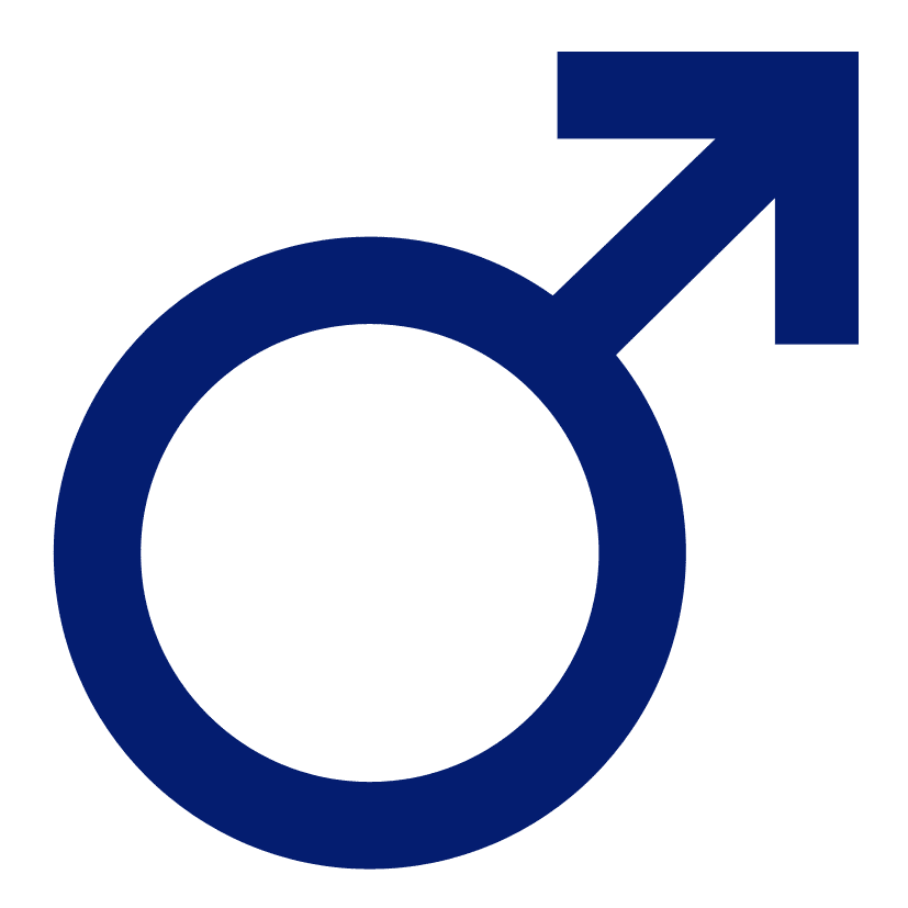 Mars symbol, symbol of masculinity